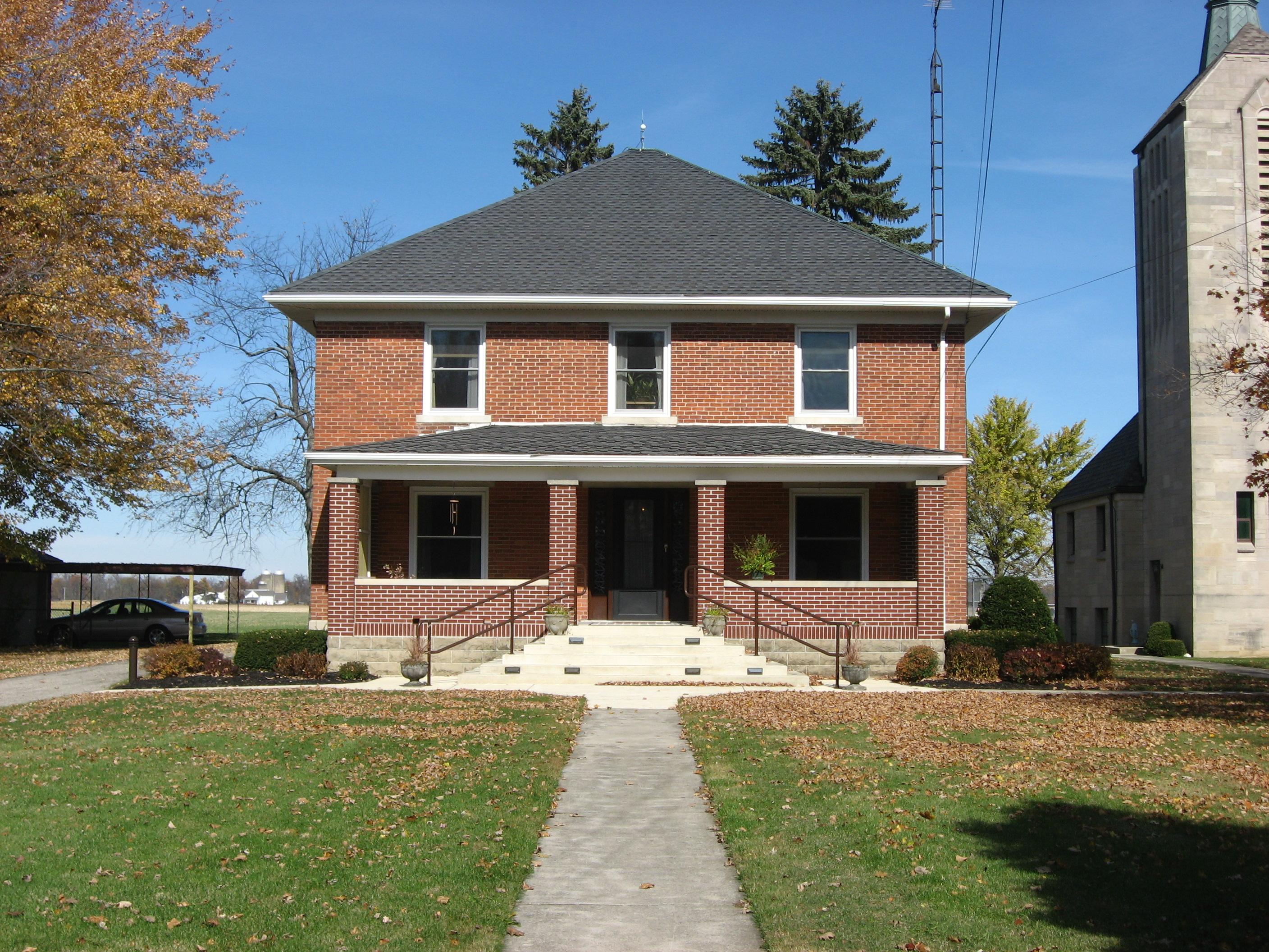 Front of the Sacred Heart of Jesus Rectory, located on the northern side of State Route 119 east of the State Route 29 intersection in McCartyville, an unincorporated community in Van Buren Township, Shelby County, Ohio, United States. Built in 1911, it was added to the National Register of Historic Places as a part of the Cross-Tipped Churches of Ohio Thematic Resources.